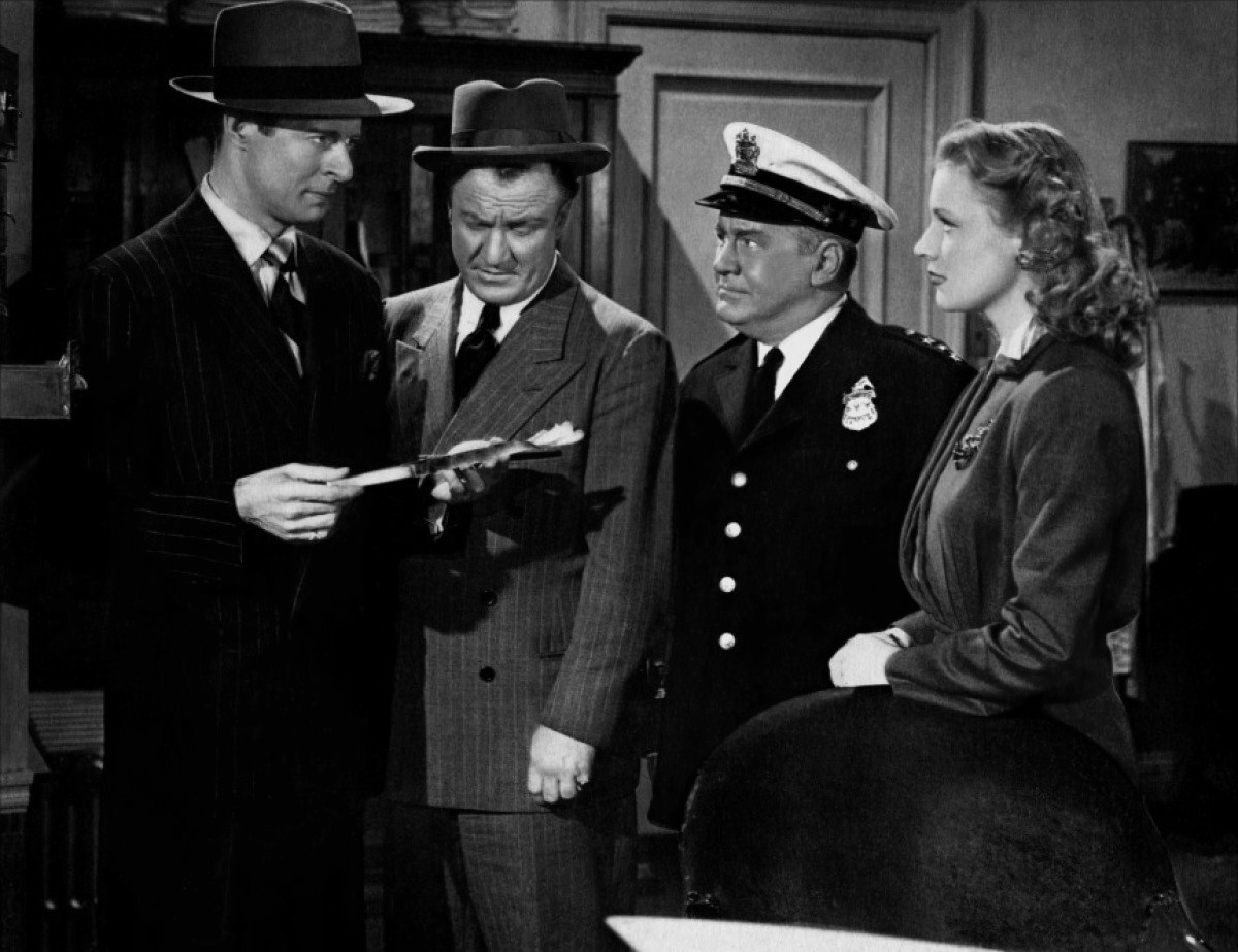 L. to R. : Morgan Conway, Lyle Latell, Joseph Crehan & Anne Jeffreys in Dick Tracy (not Dick Tracy vs. Cueball) - publicity still (original image colorized, modified : see source)